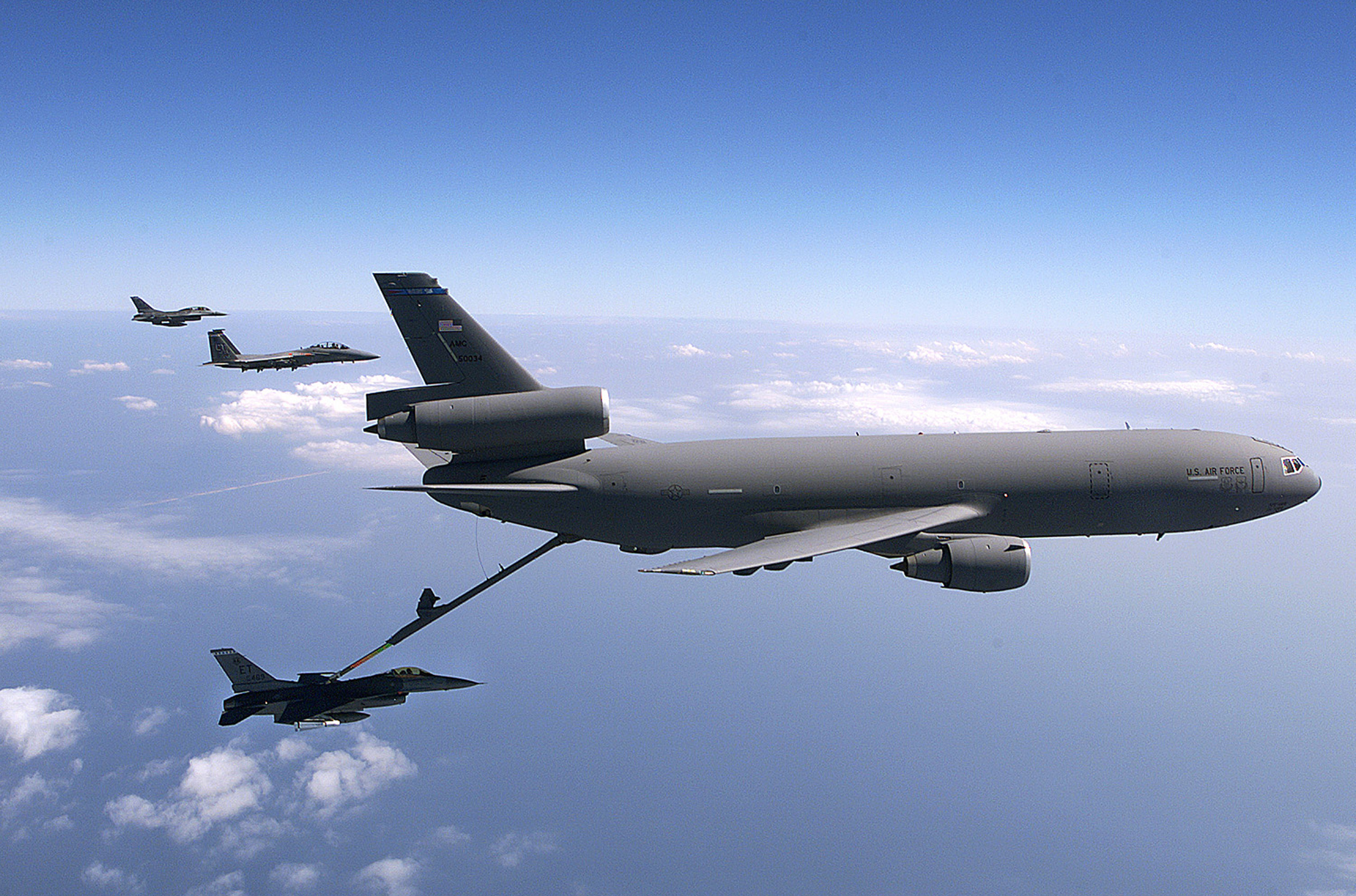 An F-16 Fighting Falcon from the 40th Flight Test Squadron, Eglin Air Force Base, Florida, refuels from a KC-10 Extender during Air & Space Power Expo '99. The Expo was put on for Congress to show how ready the US Air Force is for the next millenium. An F-15 Eagle and another F-16 Fighting Falcon are pictured in the background.